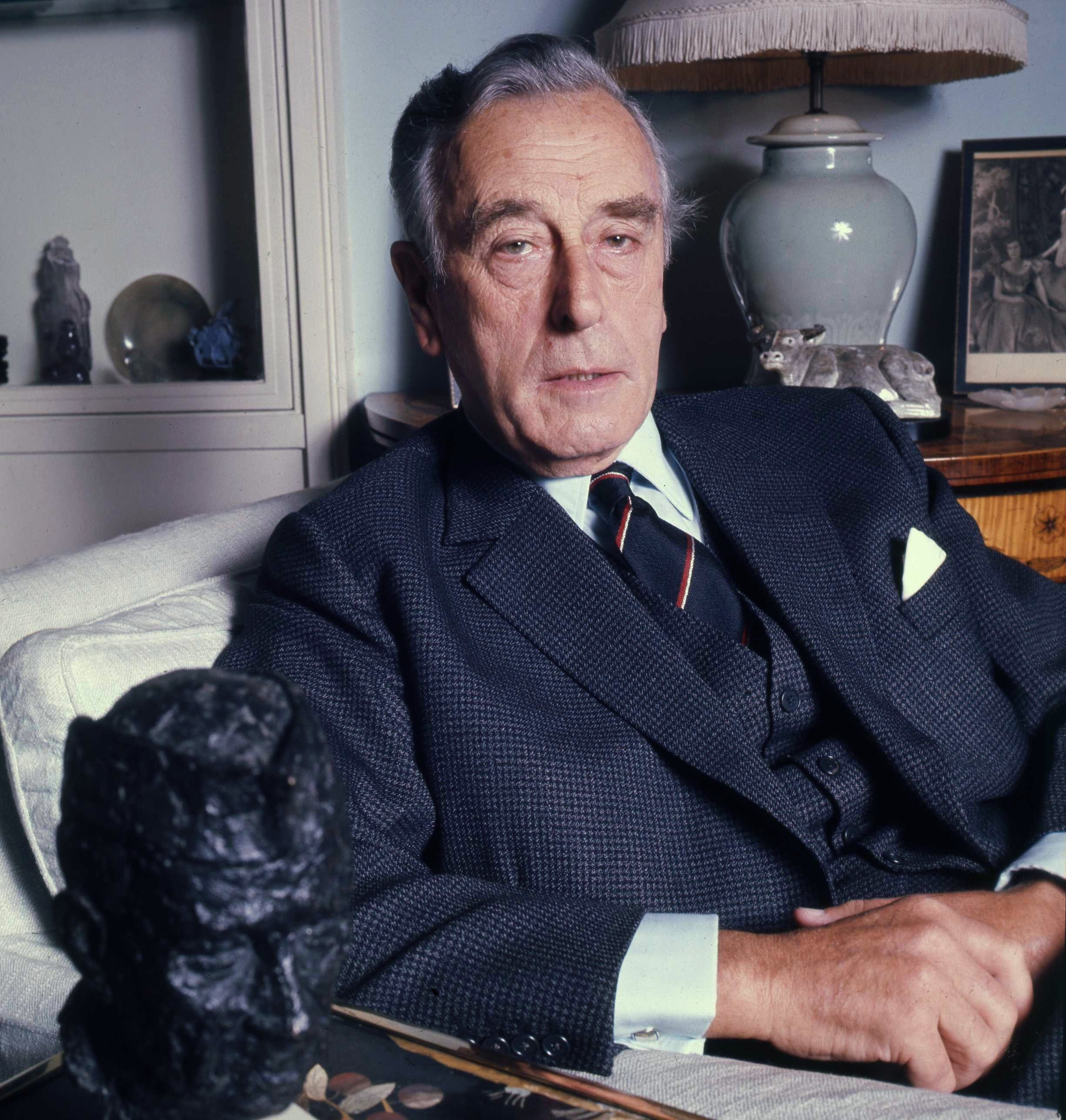 portrait of Lord Mountbatten